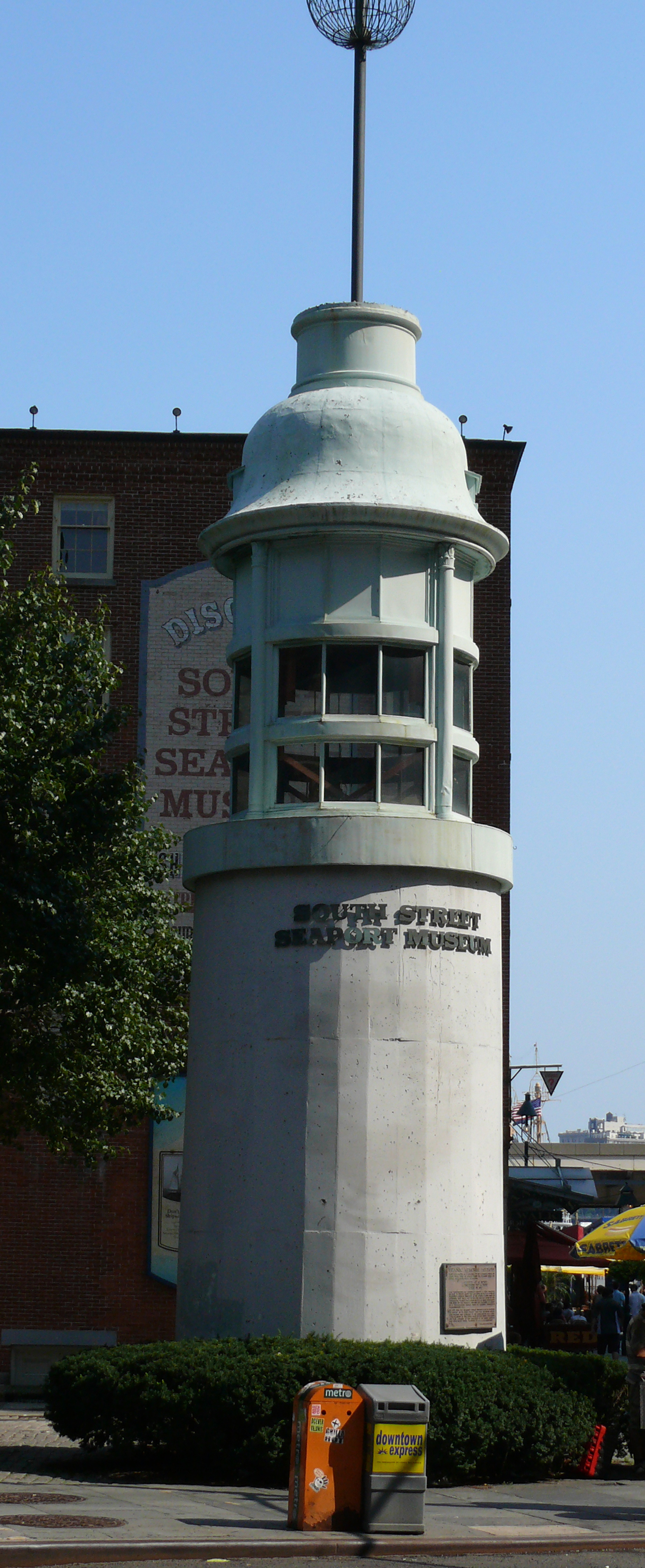 Titanic Memorial Lighthouse at the South Street Seaport Museum